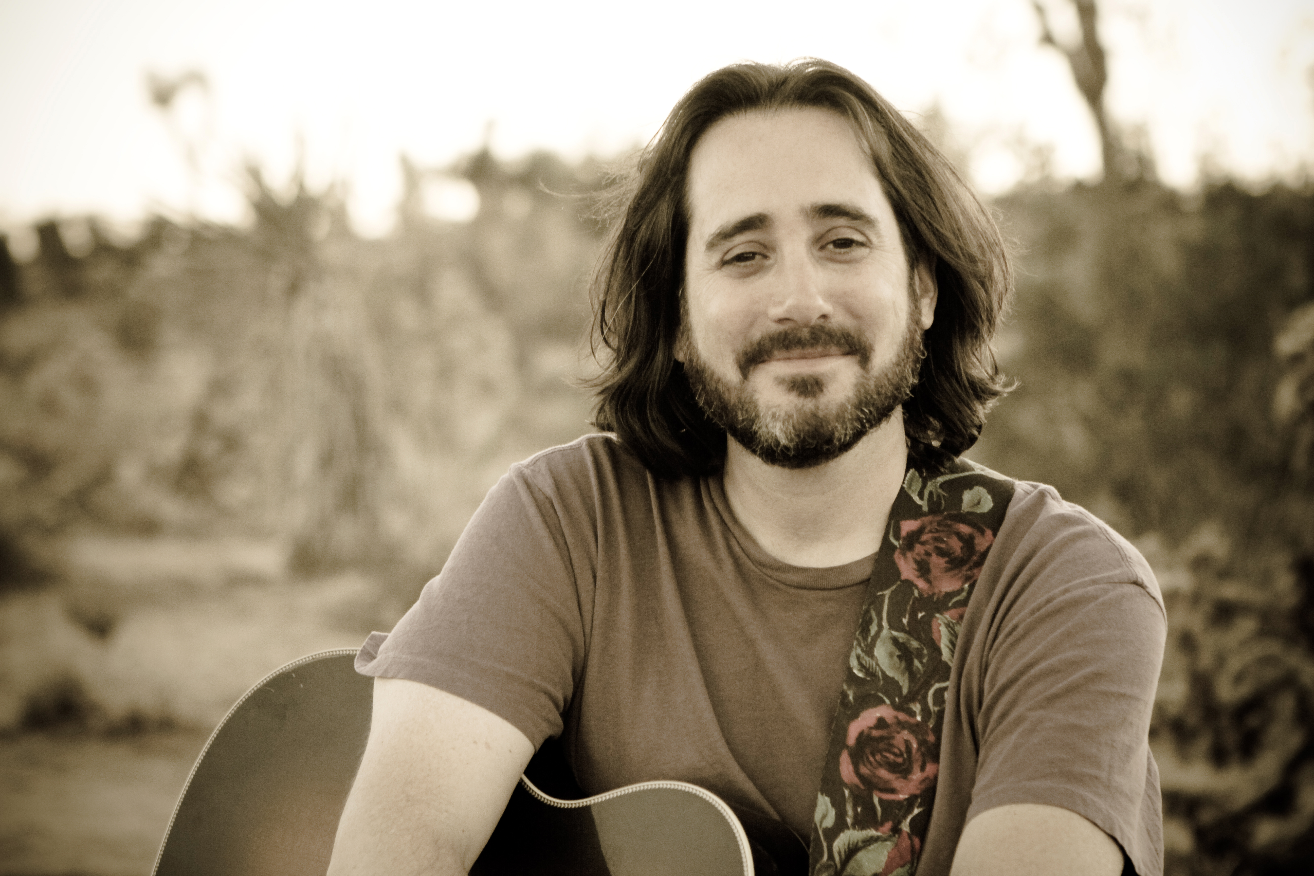 David Newman Photo